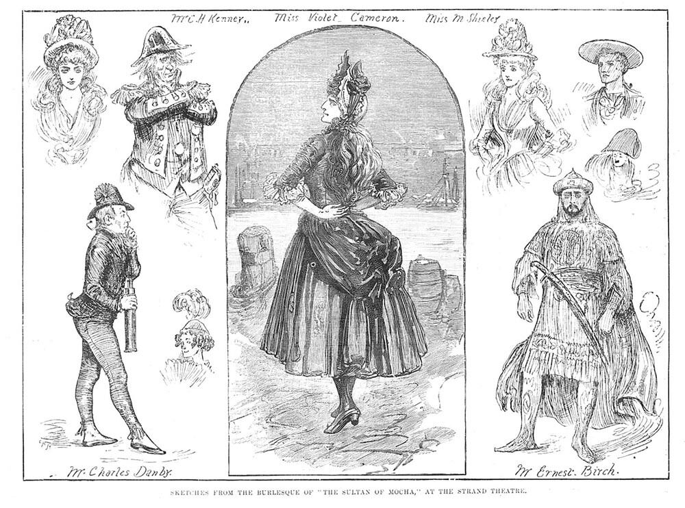 The Sultan of Mocha at the Strand Theatre - The Illustrated London News - 29 October 1887 pg. 515